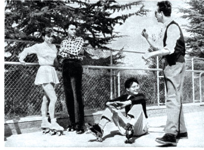 Sul set di "Terza liceo" (1953) il regista Luciano Emmer (a sin.) con da destra: Christine Carère, Ugo Amaldi e Claudio Barbesino